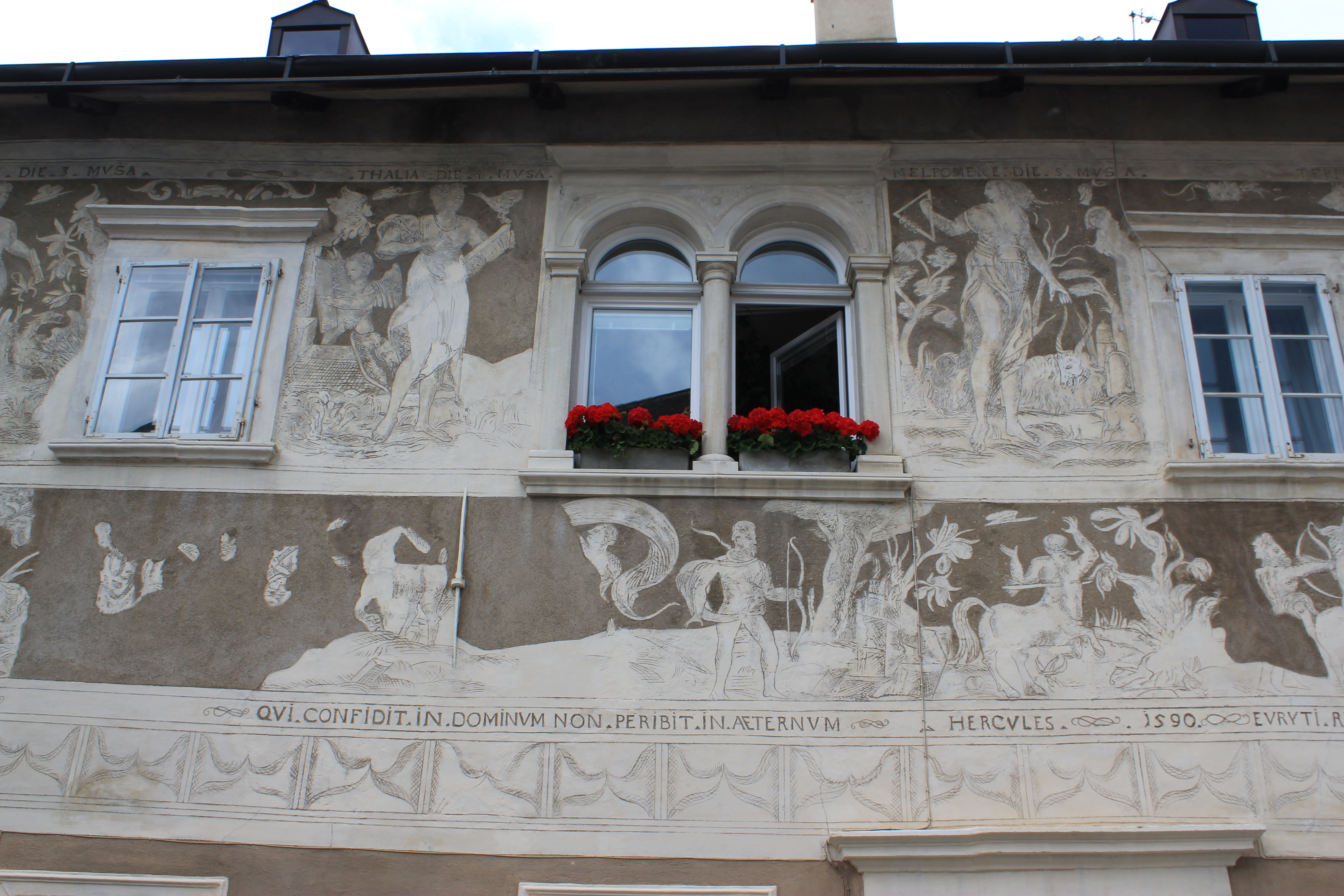 House Salzburger Platz 6 in Althofen - detail